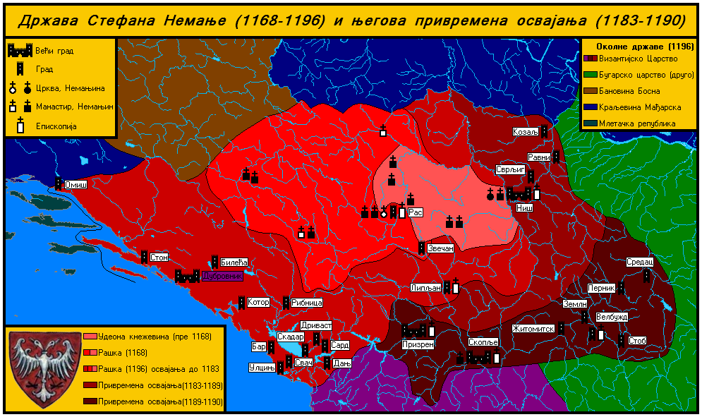 Map of the Grand Principality of Serbia under Stefan Nemanja (1168–90).